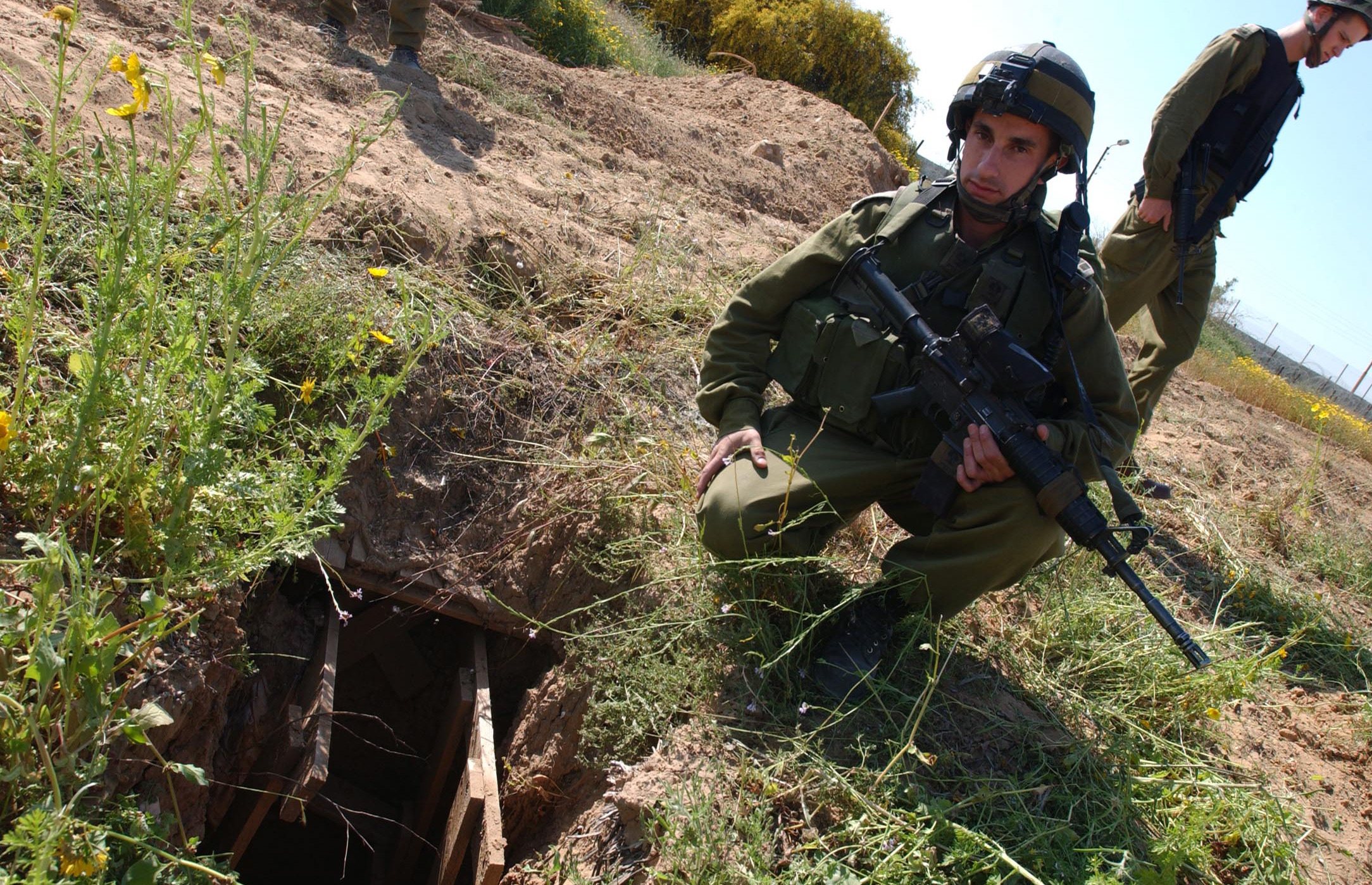 April 5, 2005 IDF forces uncovered electric cables in a seven-meter-deep tunnel with wooden walls, near the Philadelphi Route along the Egypt-Gaza border.